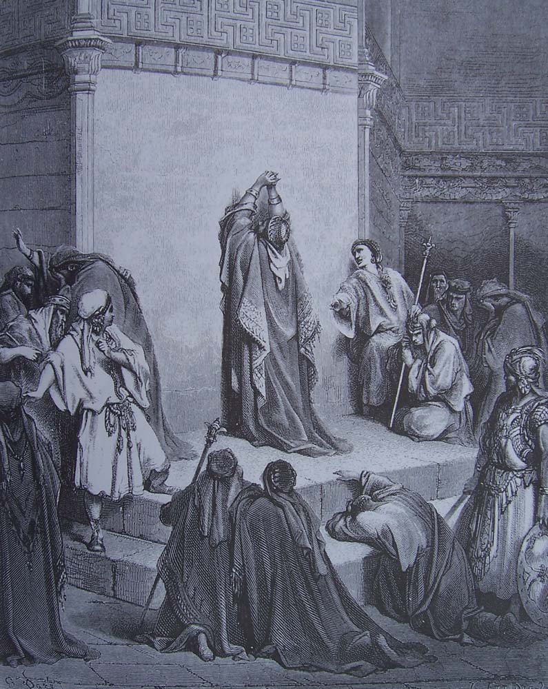 Gustave Doré : David mourning Absalom.